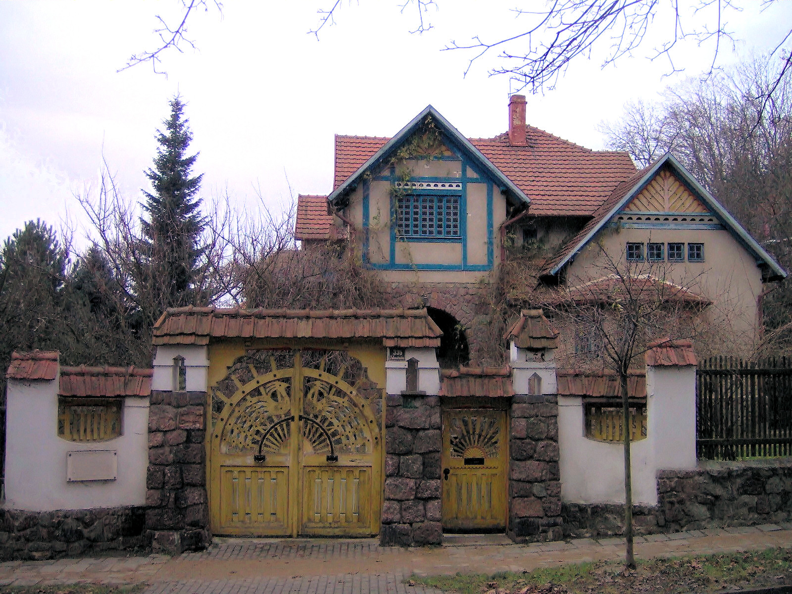 Villa of Dušan Jurkovič in Brno, Czech Republic